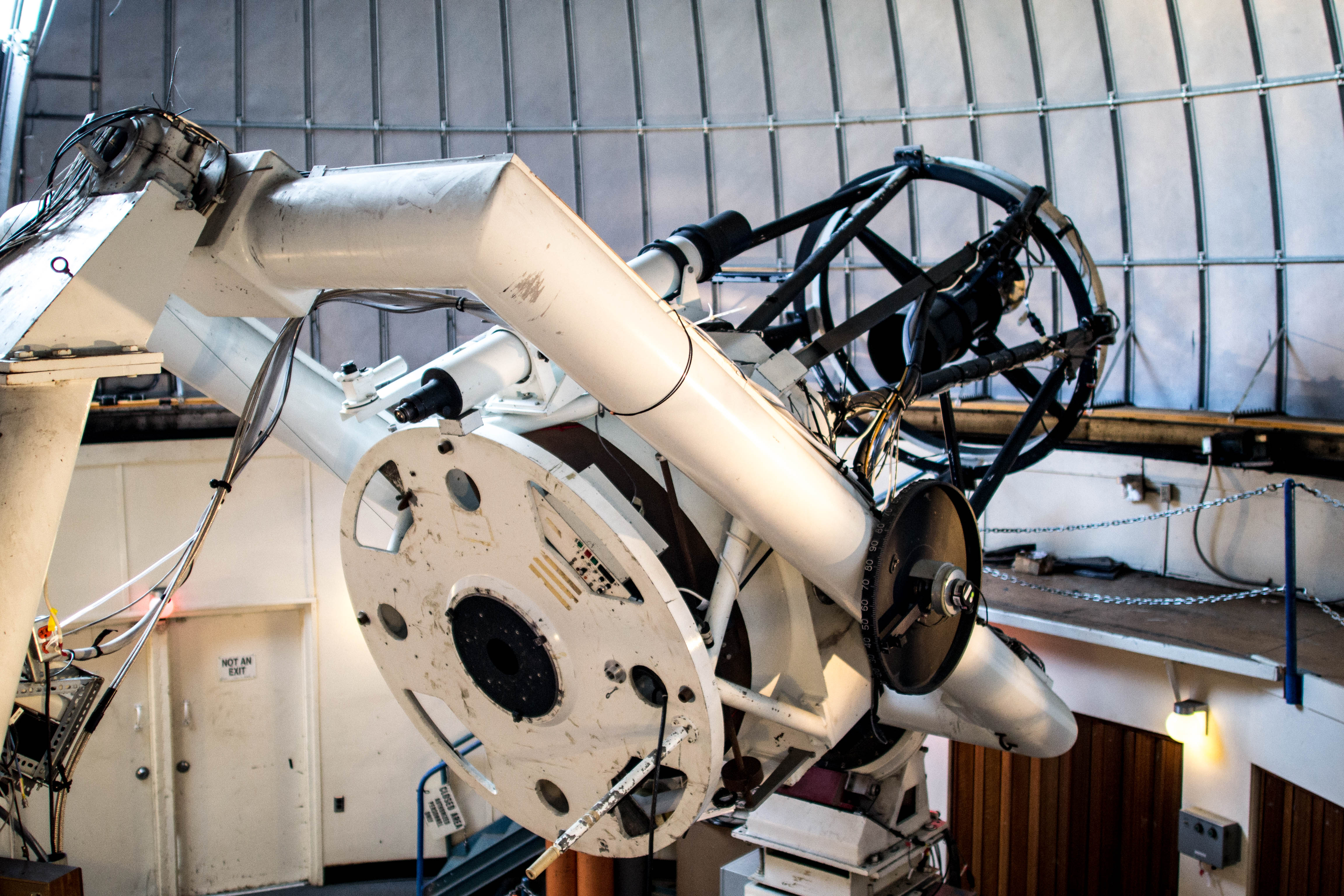 A telescope at the Catalina Sky Survey, located at Mount Lemmon Observatory in the Santa Catalina Mountains near Tucson, Arizona.